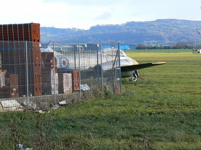 Gloster Meteor, Gloucestershire Airport, Churchdown If I have misidentified the plane please advise. Assuming I am correct this is an historic aircraft as it was the first jet fighter of either side to see service in the second world war. It seems rather sad to see it tucked away here although, in fairness, there is another example on display nearer the main road.